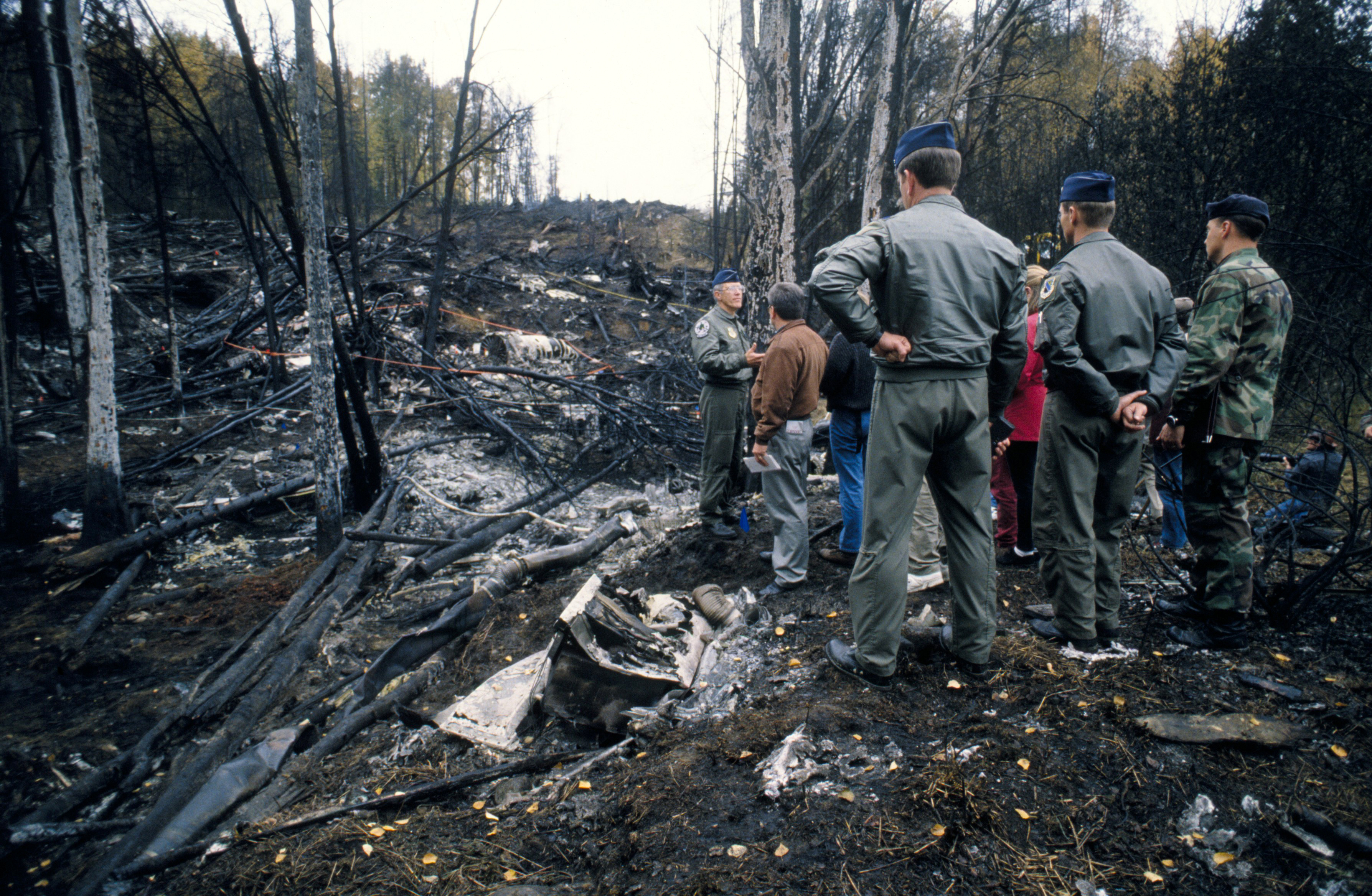 Yukla-27 AWACS crash